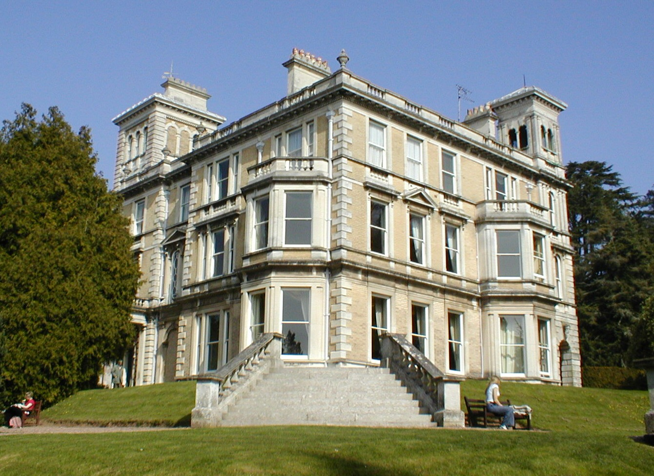 Reed Hall at the University of Exeter. This building is used for some official meetings, and is also hired out for functions, such as weddings.